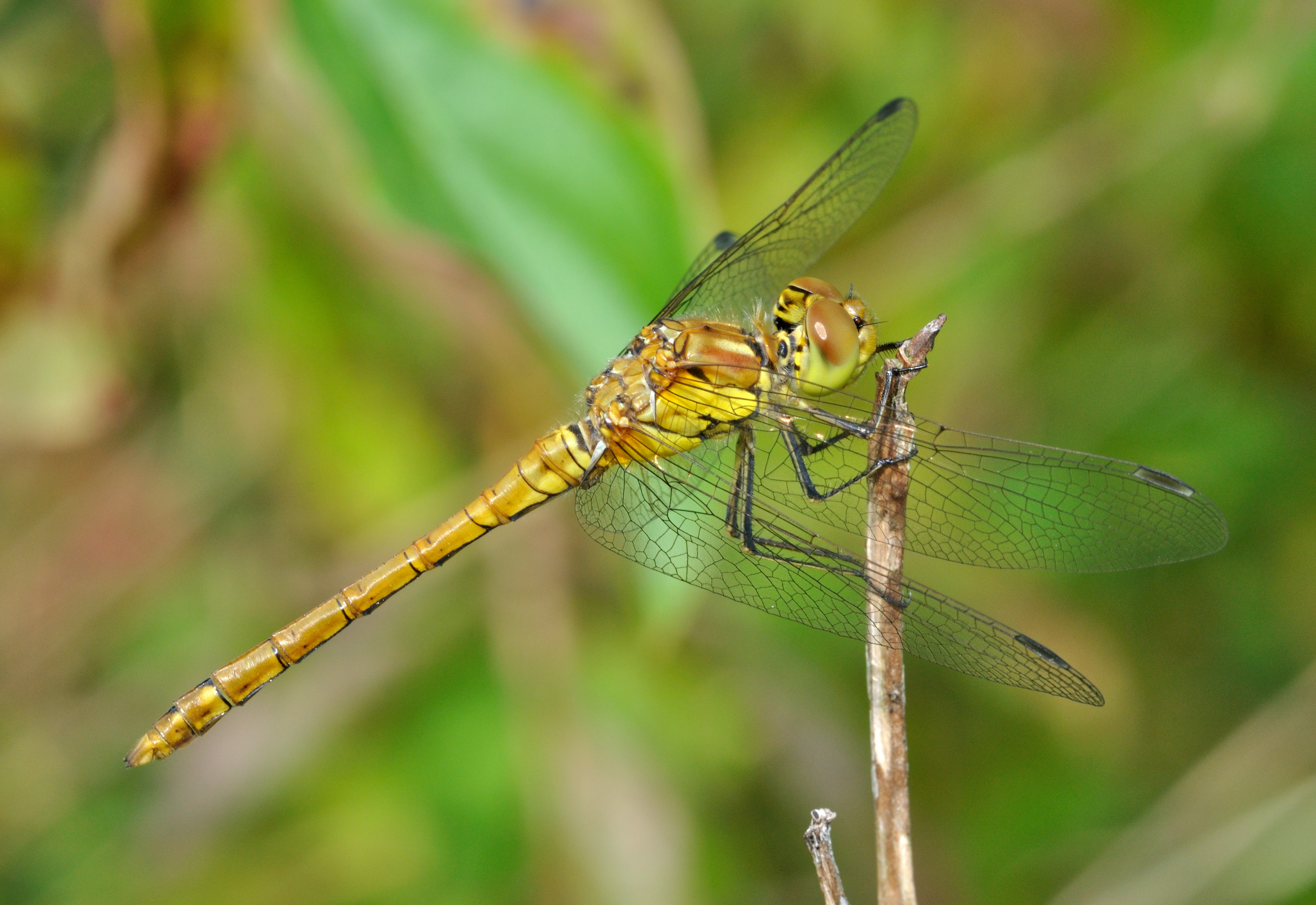 Juvenile male Common Darter (Sympetrum striolatum) near the old airstrip, Frankfurt, Germany.